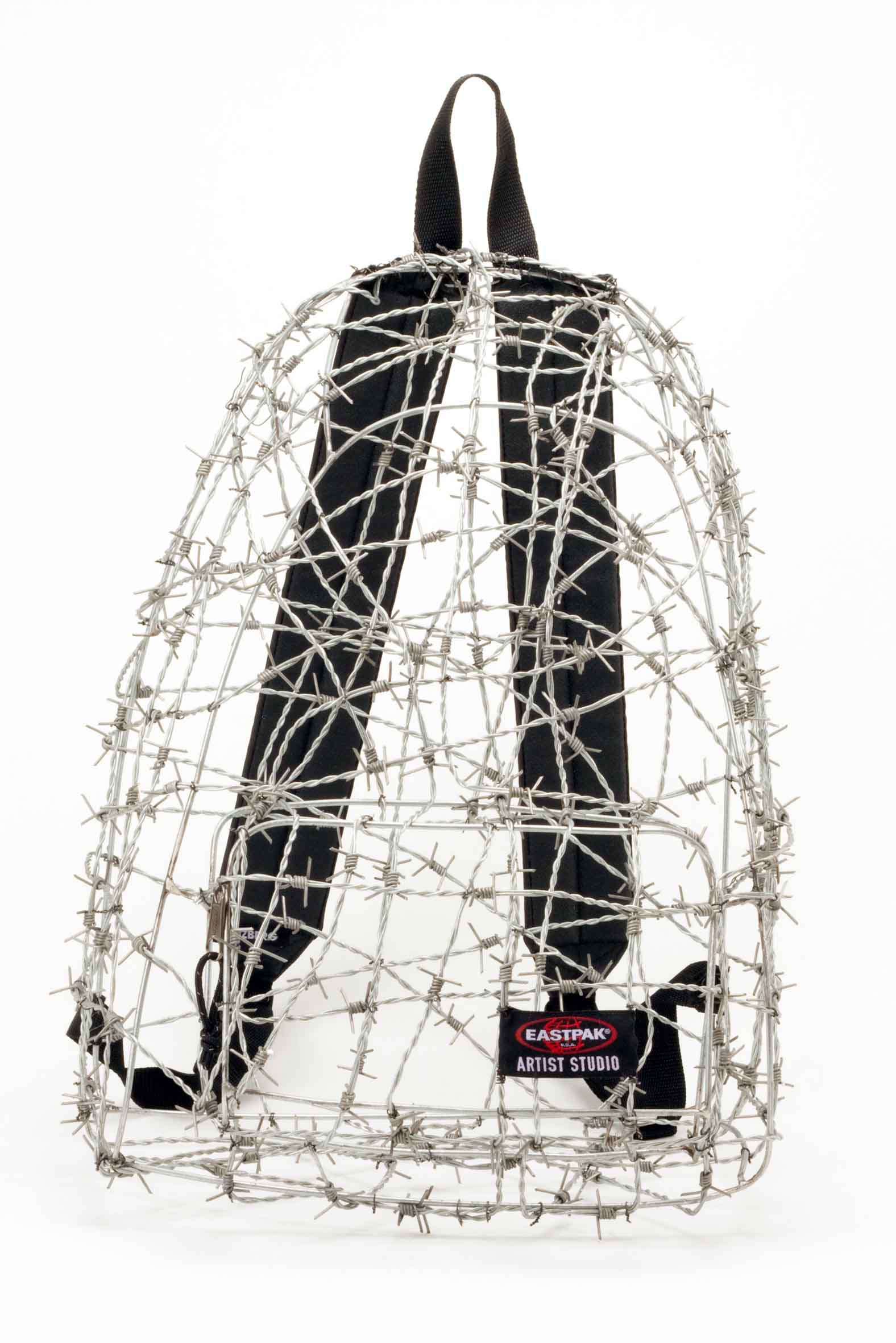 Eastpak backpack. This work is free and may be used by anyone for any purpose. If you wish to use this content, you do not need to request permission as long as you follow any licensing requirements mentioned on this page.